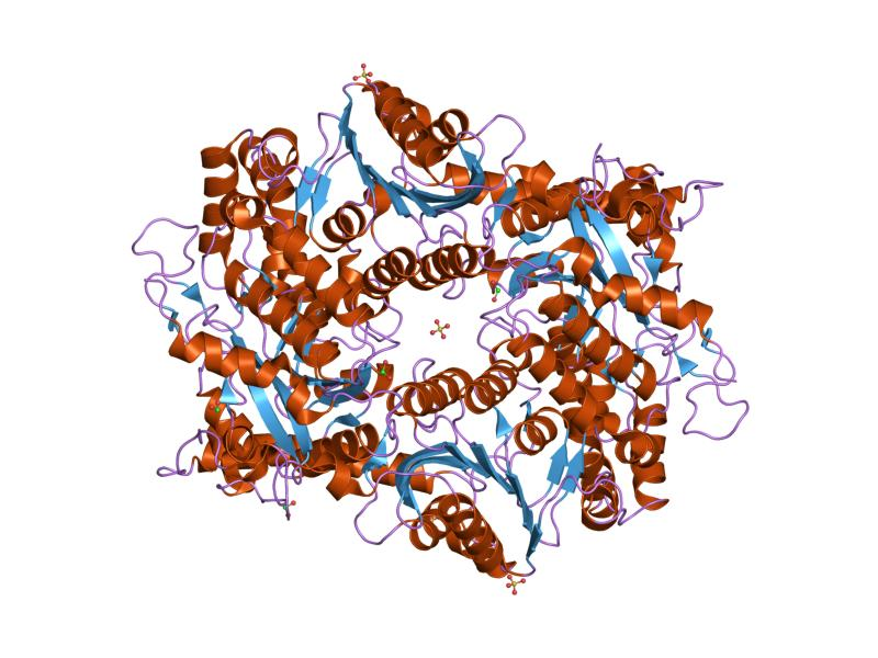 Cartoon representation of the molecular structure of protein registered with 1pix code.